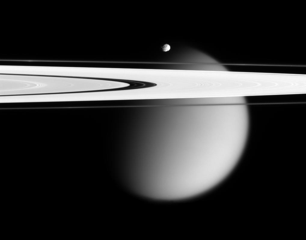 Epimetheus & Titan